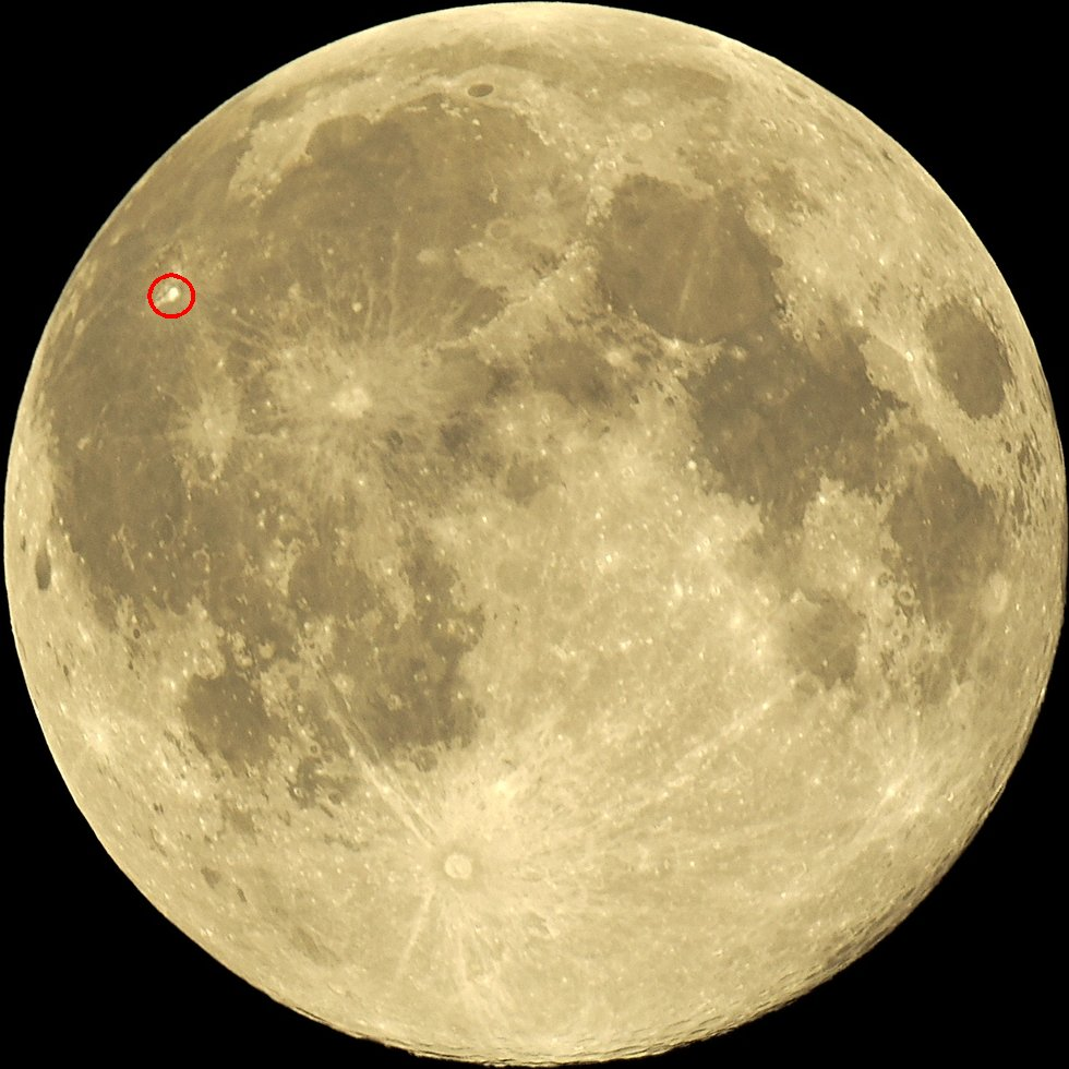 Location of crater Aristarchus on the Moon